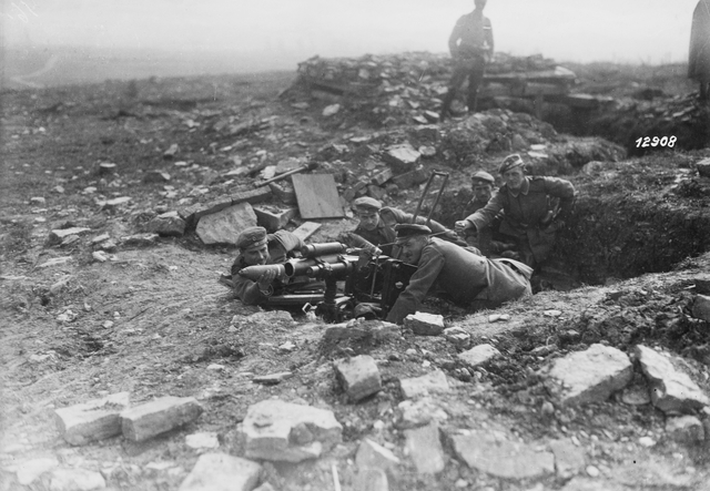 AWM caption : Western Front. October 1918. A German Army mine thrower and crew entrenched for defence against British Army tanks. Comment : They are operating a 7.58 cm Minenwerfer.